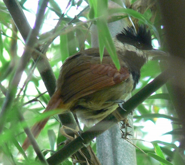 This is a photo of Biatas nigropectus. I (Kristina Cockle) took the photo at Tobuna, Misiones, Argentina, in 2007.